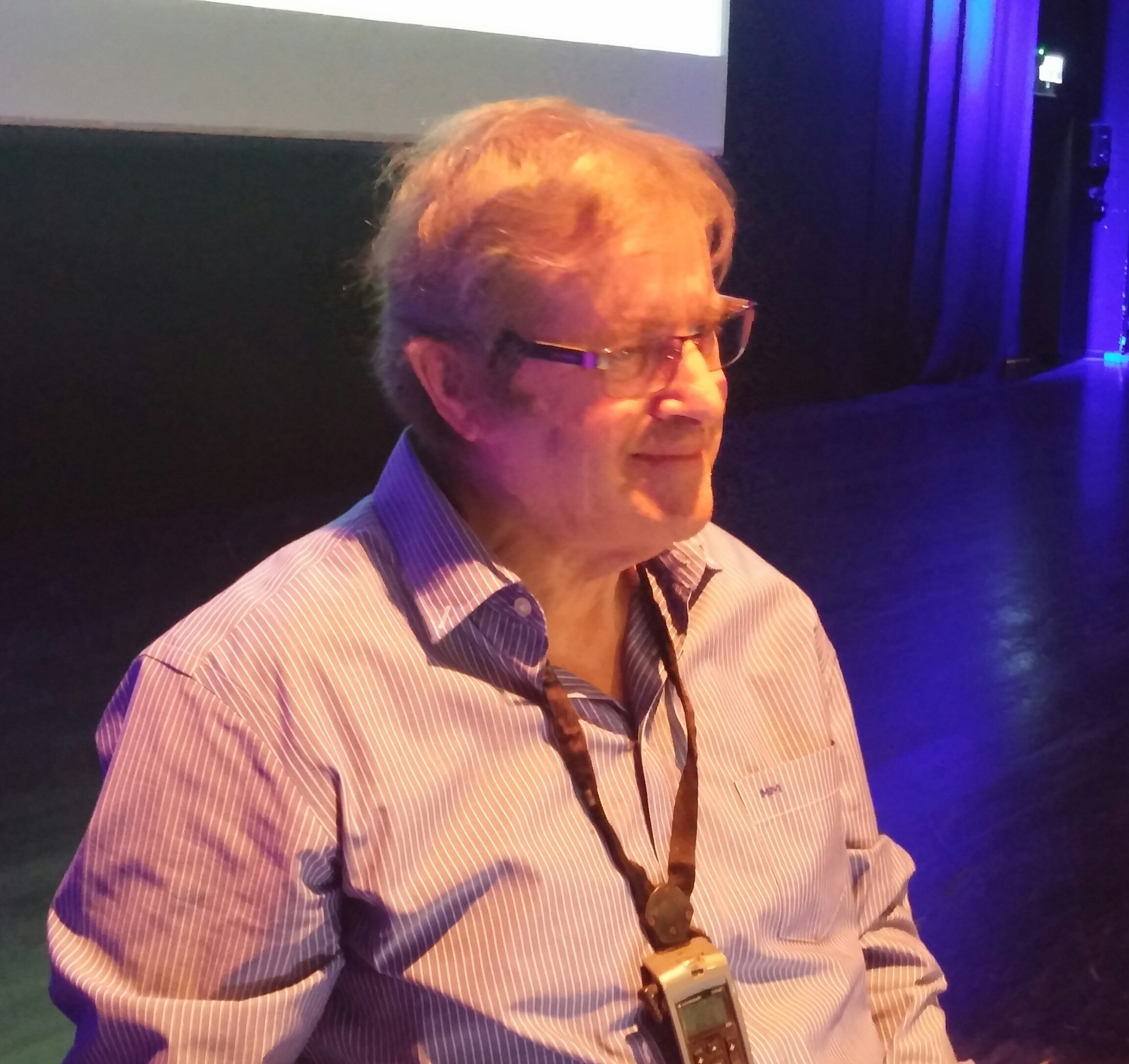 prof. Haim Omer, 2015